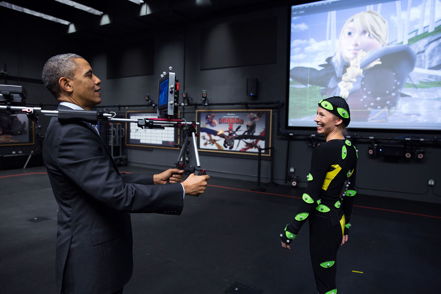 After watching a motion capture demonstration at the DreamWorks Animation studio in California, the President tried out the camera himself.